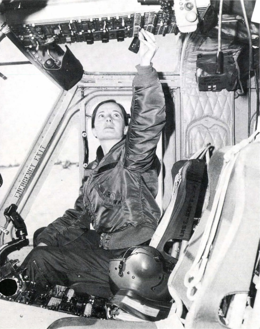 Second Lieutenant Sally D. Murphy in the cockpit of a UH-1 Huey (U.S. Army Aviation Digest photograph damaged at control console by hole punch)